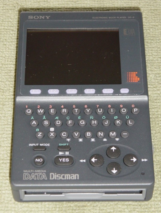 Photo of the Sony Data Discman DD8.